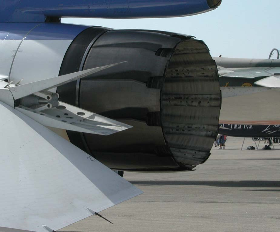 Outlet nozzle of the General Electric F110 engine of a JASDF aircraft displayed at JASDF Komaki AB